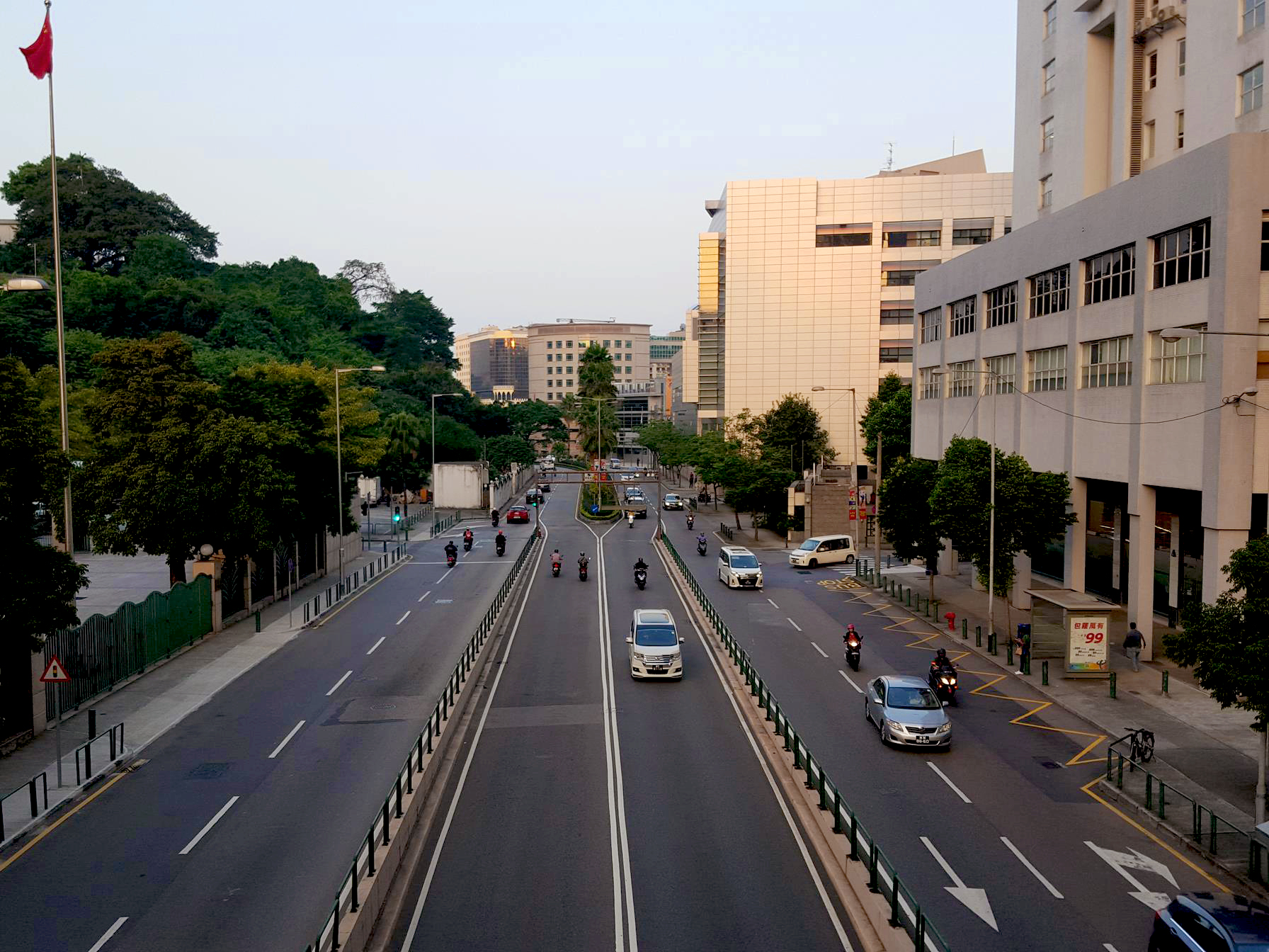 Avenida Dr. Rodrigo Rodrigues